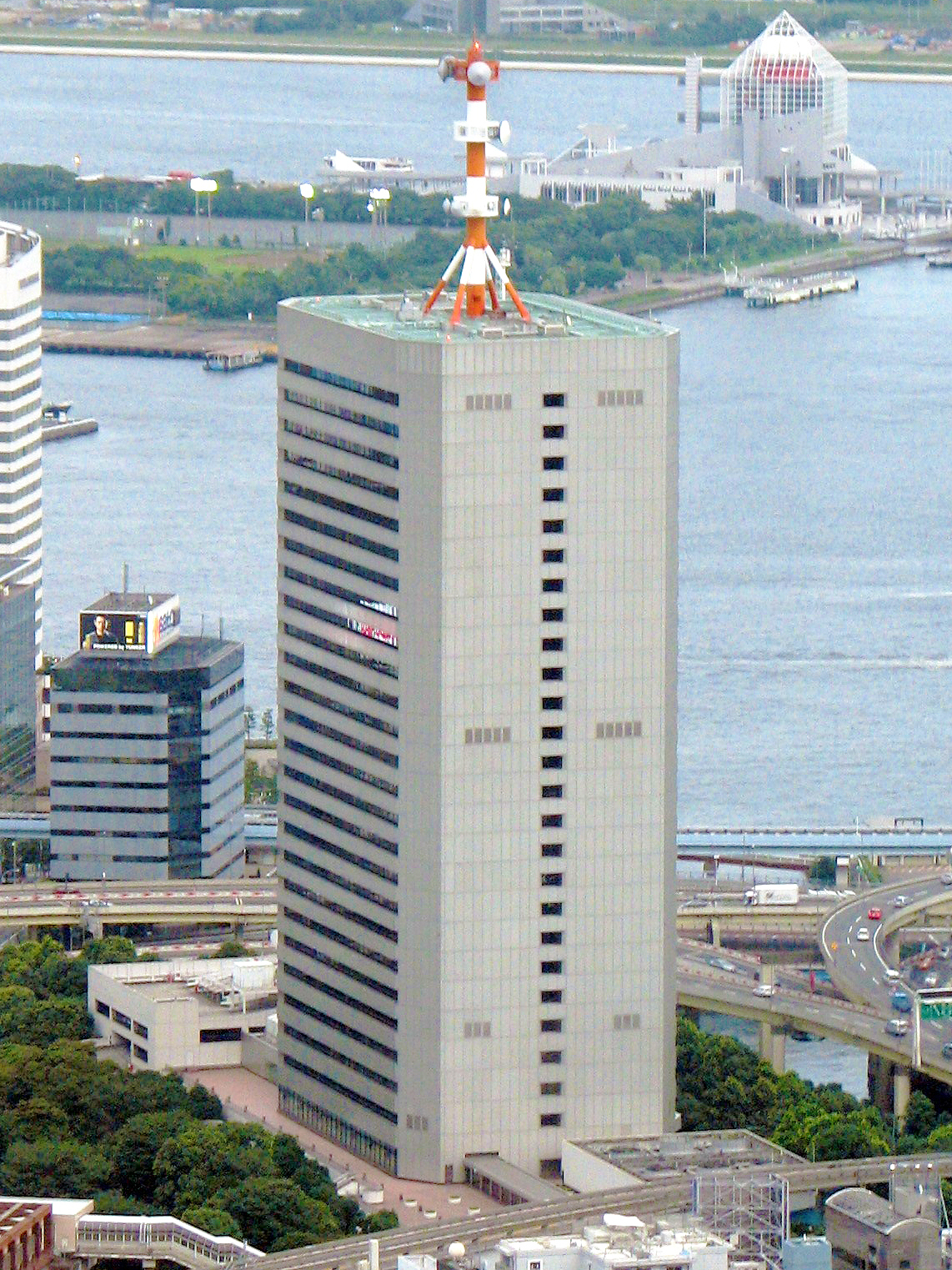 Tokyo Gas Building and Harumi Passenger ship terminal. View from Tokyo Tower.